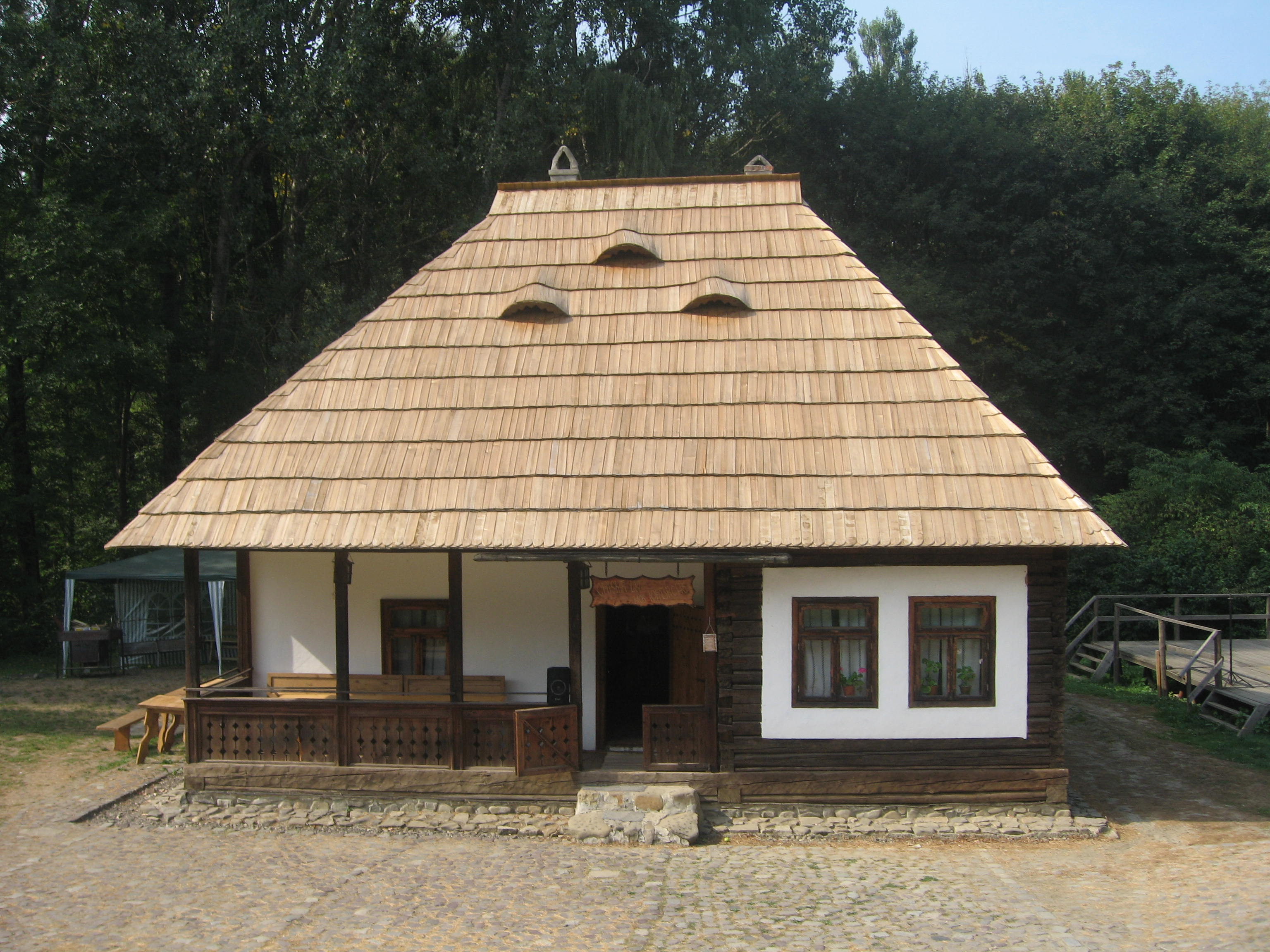 Bukovina Village Museum - The Şaru Dornei Tavern, Dorna ethnographic area.